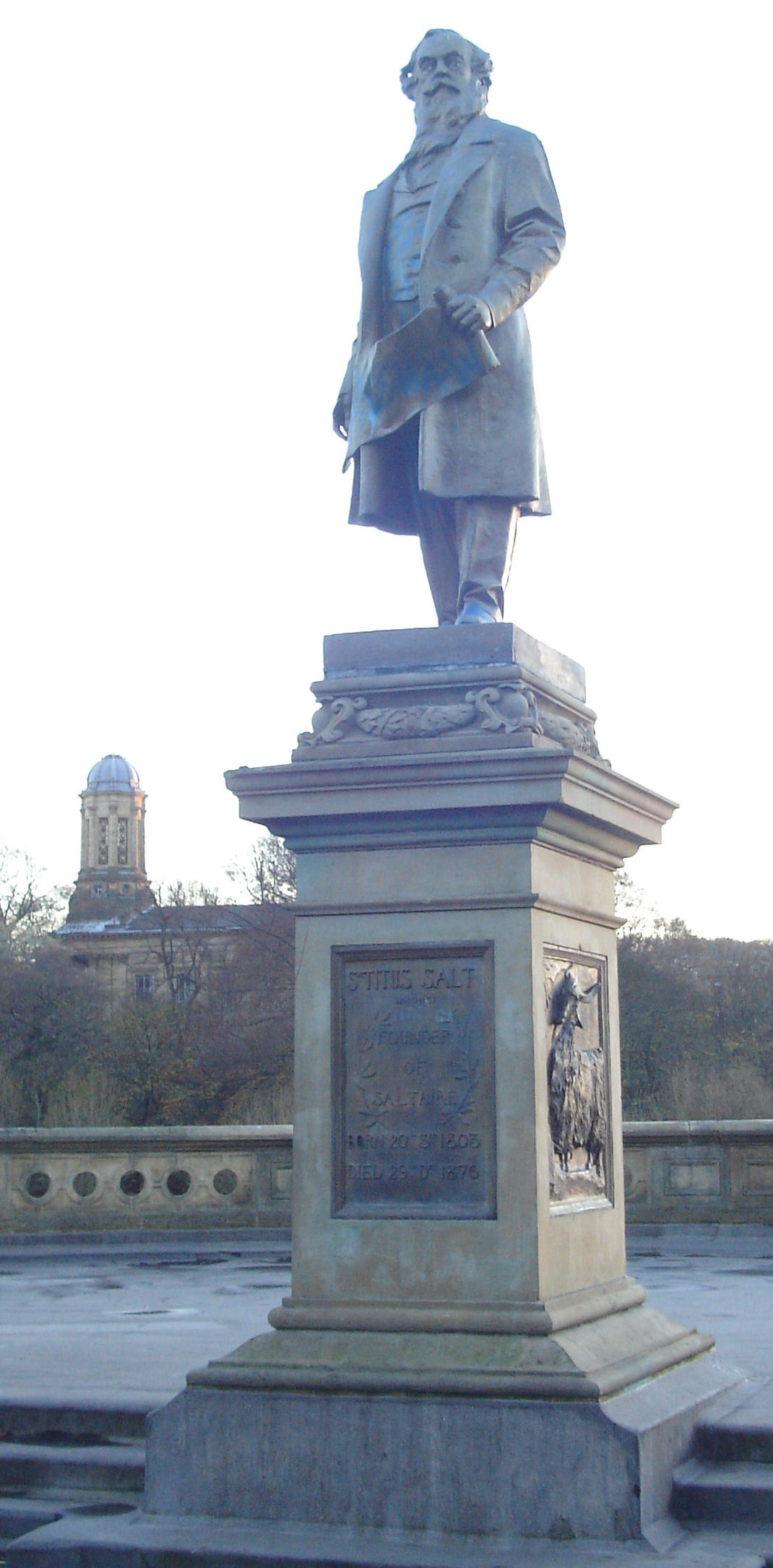 Statue of Titus Salt in Roberts Park, Saltaire.